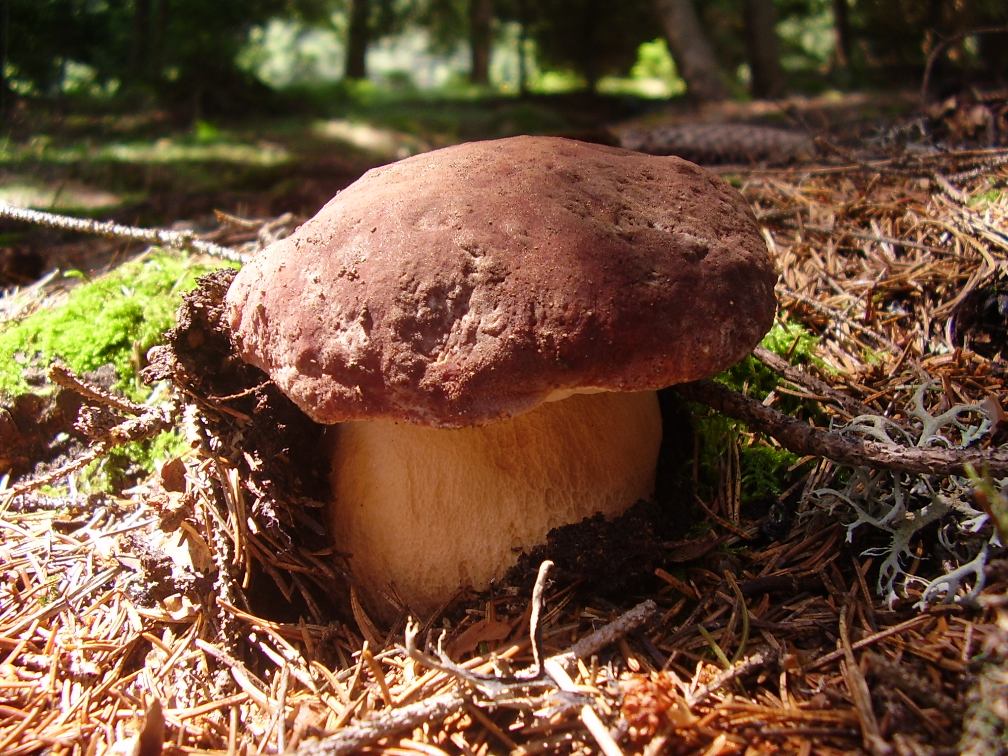 Boletus pinophilus from Bulgaria.